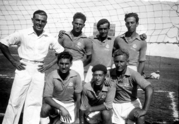 The second maccabiah 1935